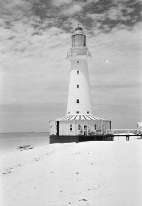 North Reef Lighthouse, Queensland - Lighthouse keeper